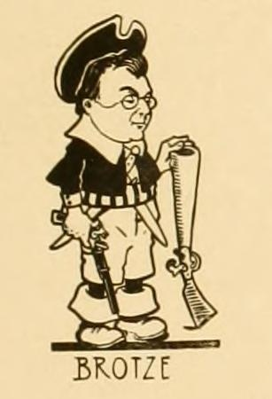 This is a clipping from the title page of a 1911 book, The Cartoon: A Reference Book of Seattle's Successful Men, copyrighted in 1911, scanned and placed in pdf format on at The clipping shows the person the article is about, Edwin Frederick Brotze.